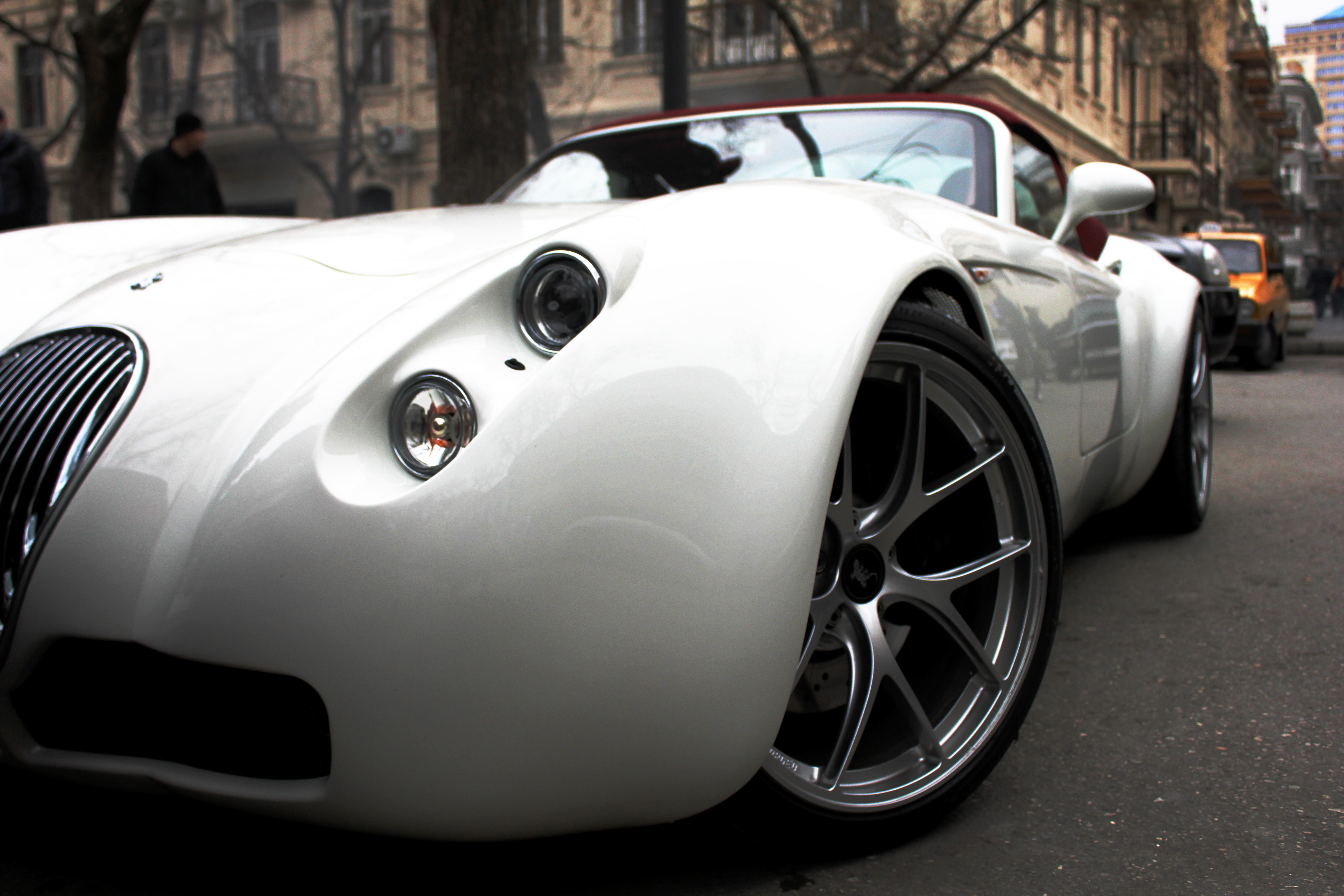 Wiesmann GT in Baku